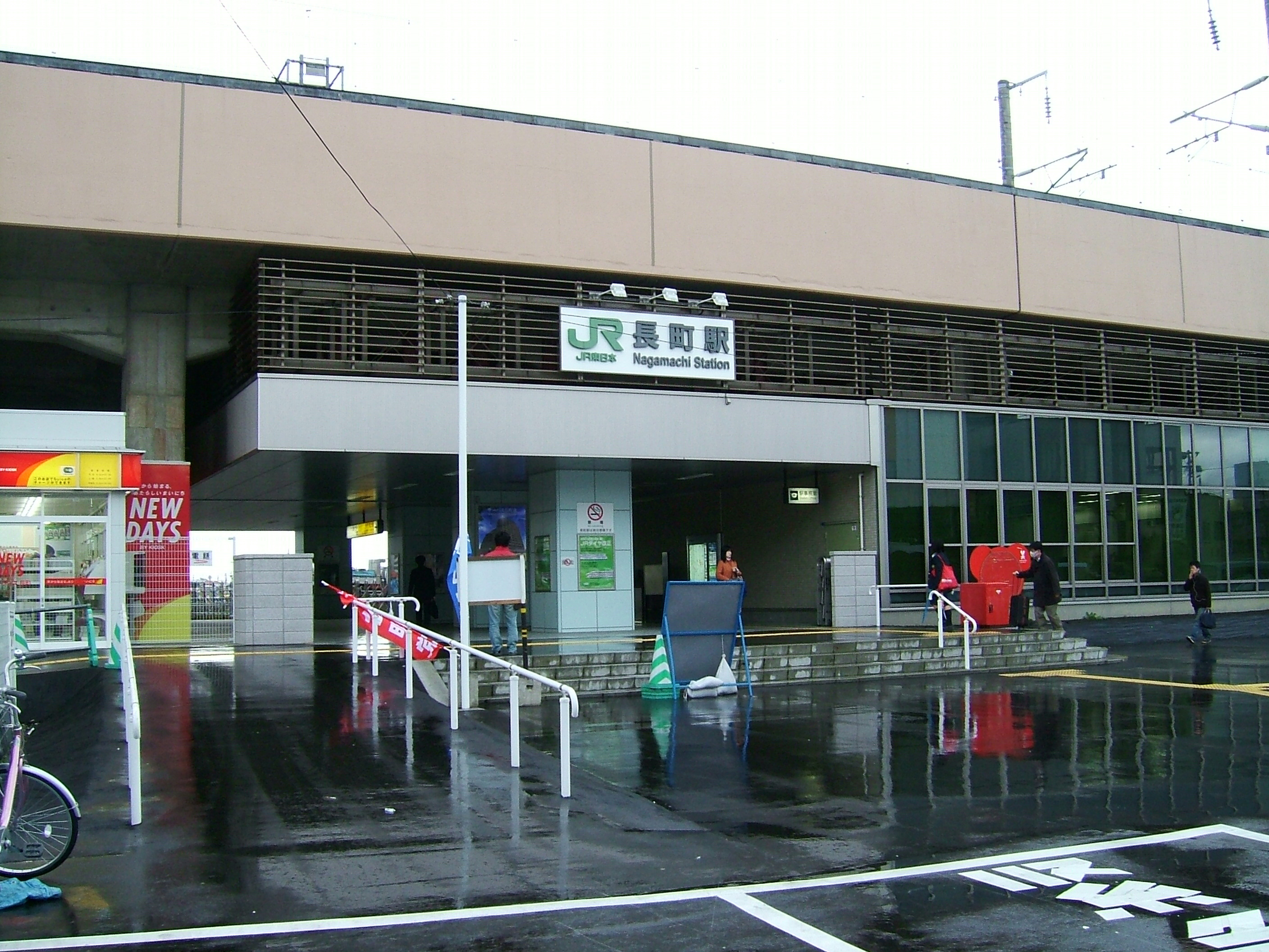 The entrance to Nagamachi Station on the Tohoku Main Line